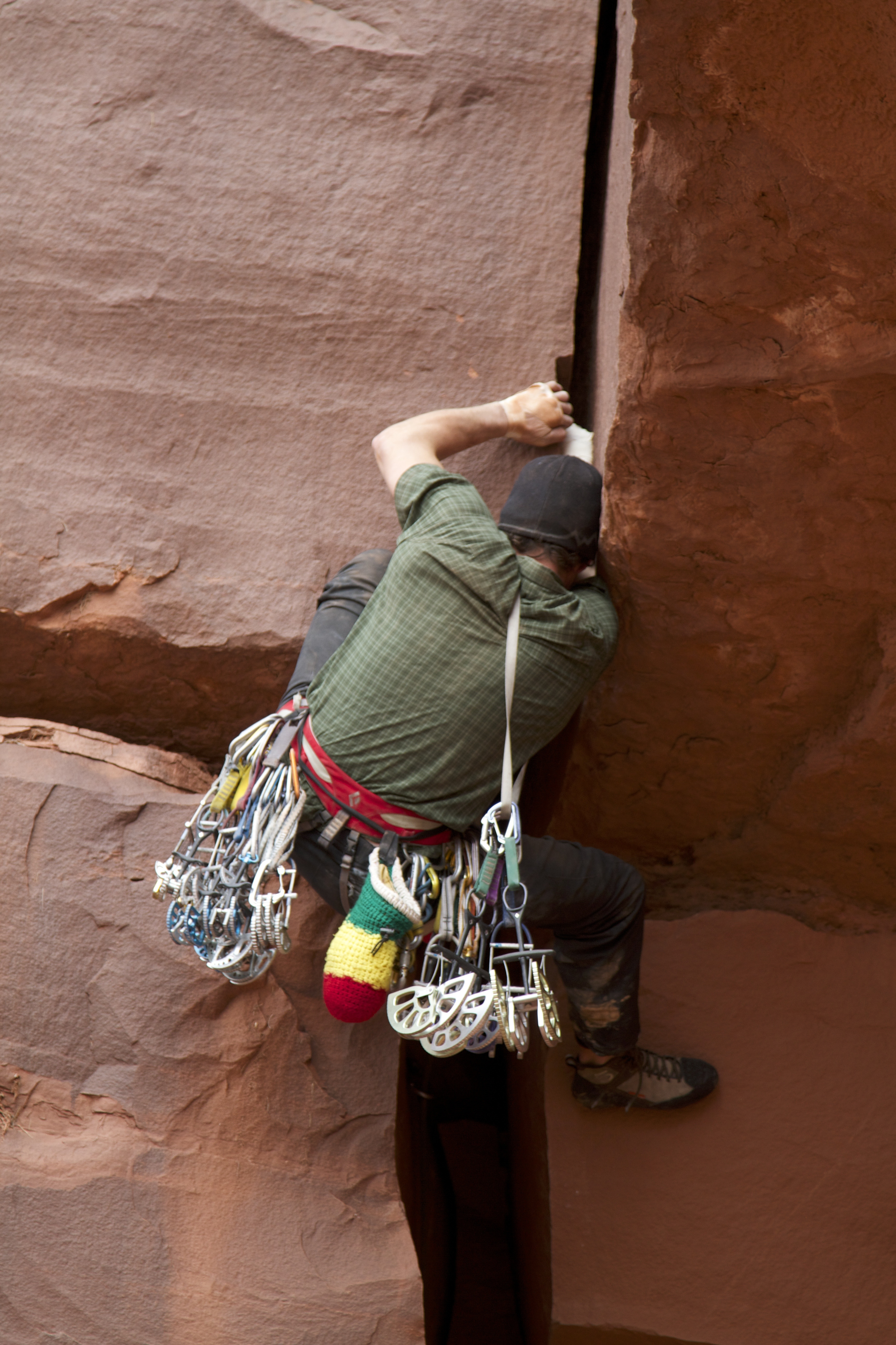 Climbing at Indian Creek climbing area in in Canyonlands near Moab, Utah